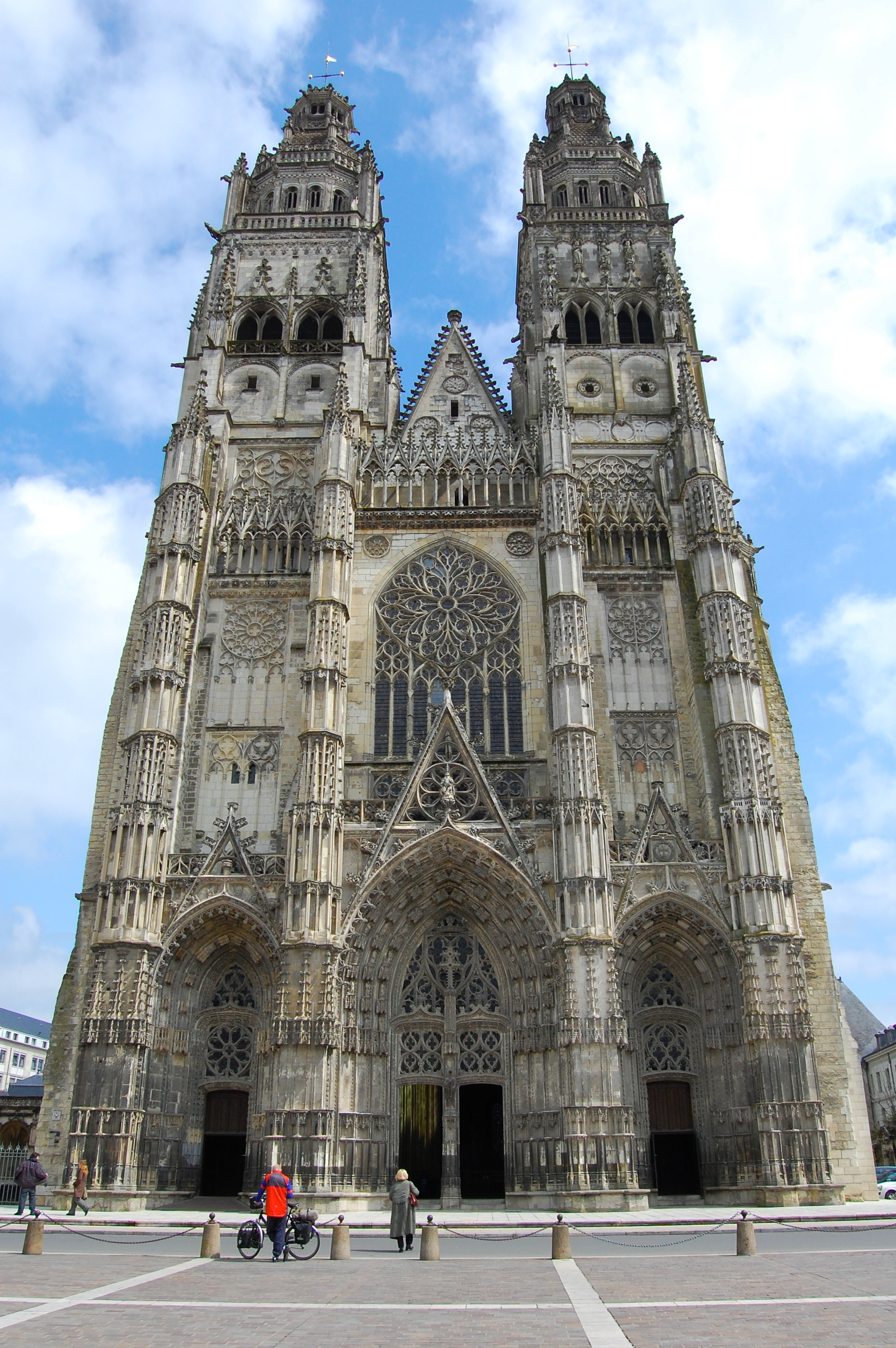 Cathedral of Saint-Gatian in Tours (France).